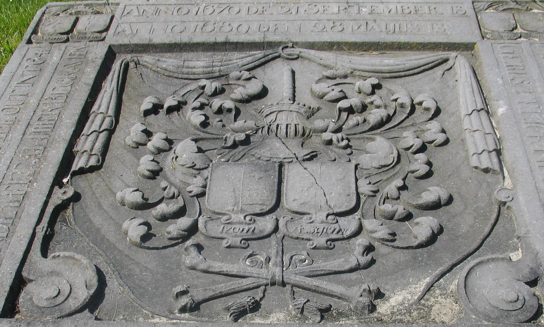 In 1645-1646 Reynier van Tzum (1600-1670) served as an opperhoofd in Deshima (Japan) and from 1656 Burgomaster in Ijlst (Friesland)